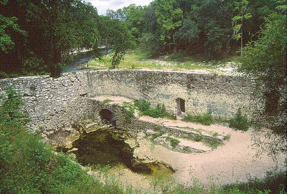 Photograph of Suwannee Springs in Florida